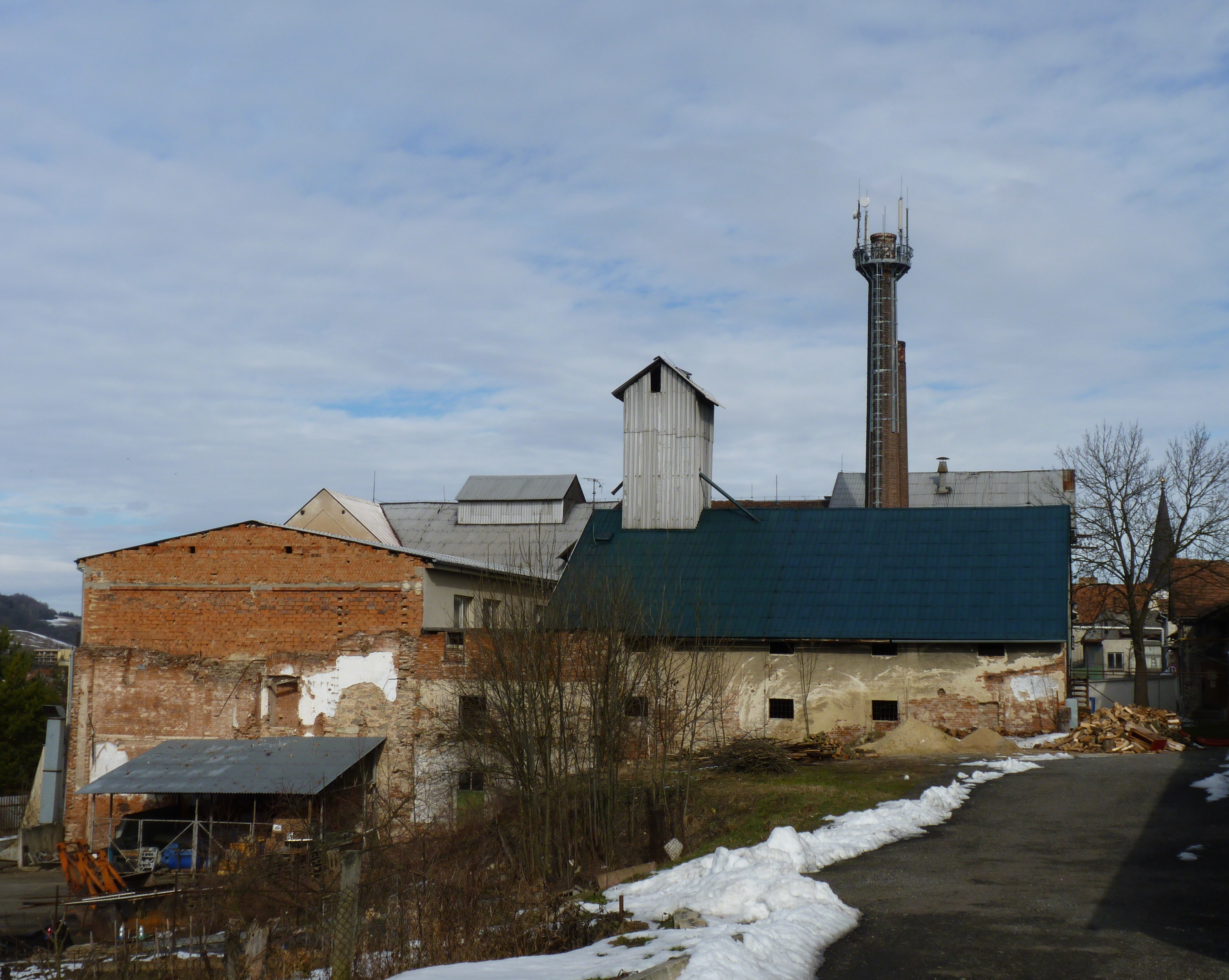 Rájec-Jestřebí, South Moravian Region, Czech Republic